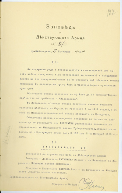 Order 87, 17 November 1915